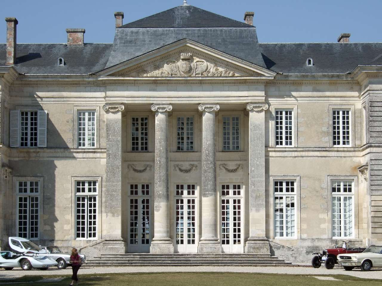 Buzay south wall